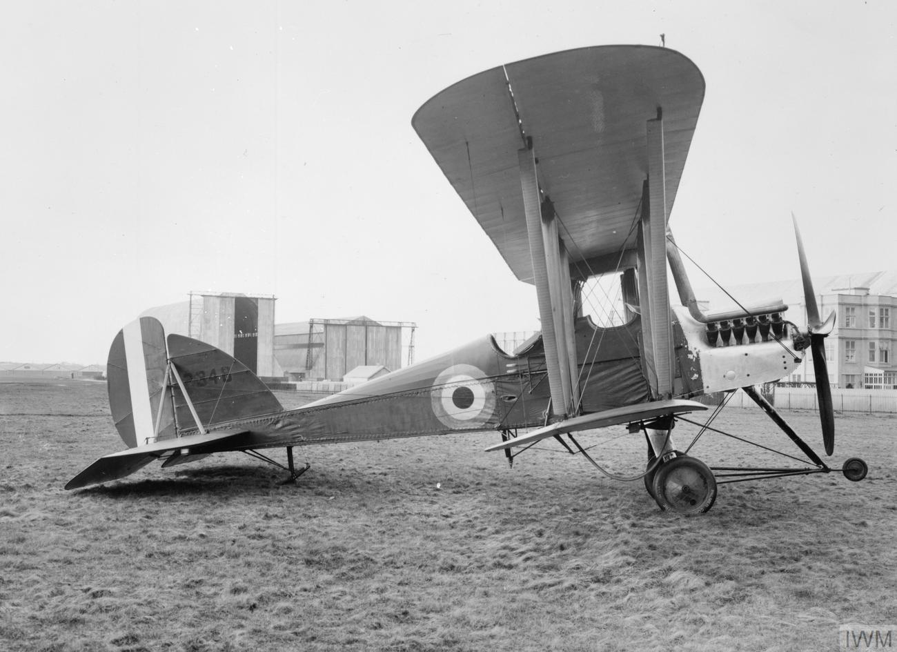 Royal Aircraft Factory R.E.7 serial l2348, 1916-1-8. This aircraft was later modified to become a three seater, Beardmore powered